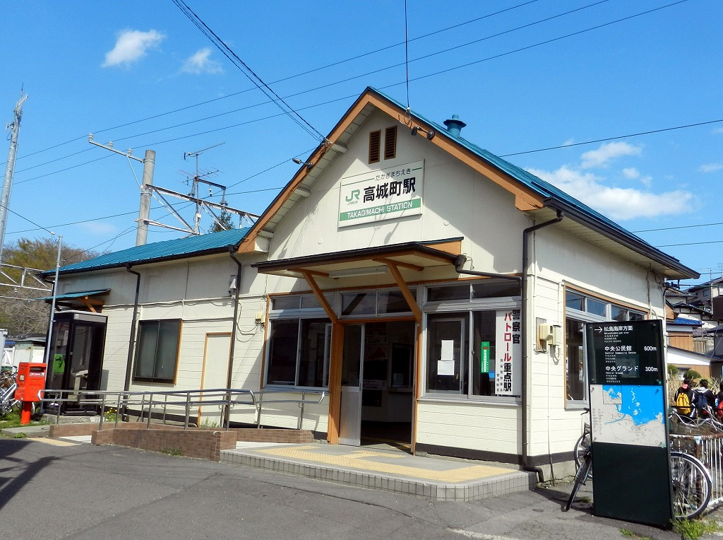 JR East Senseki line